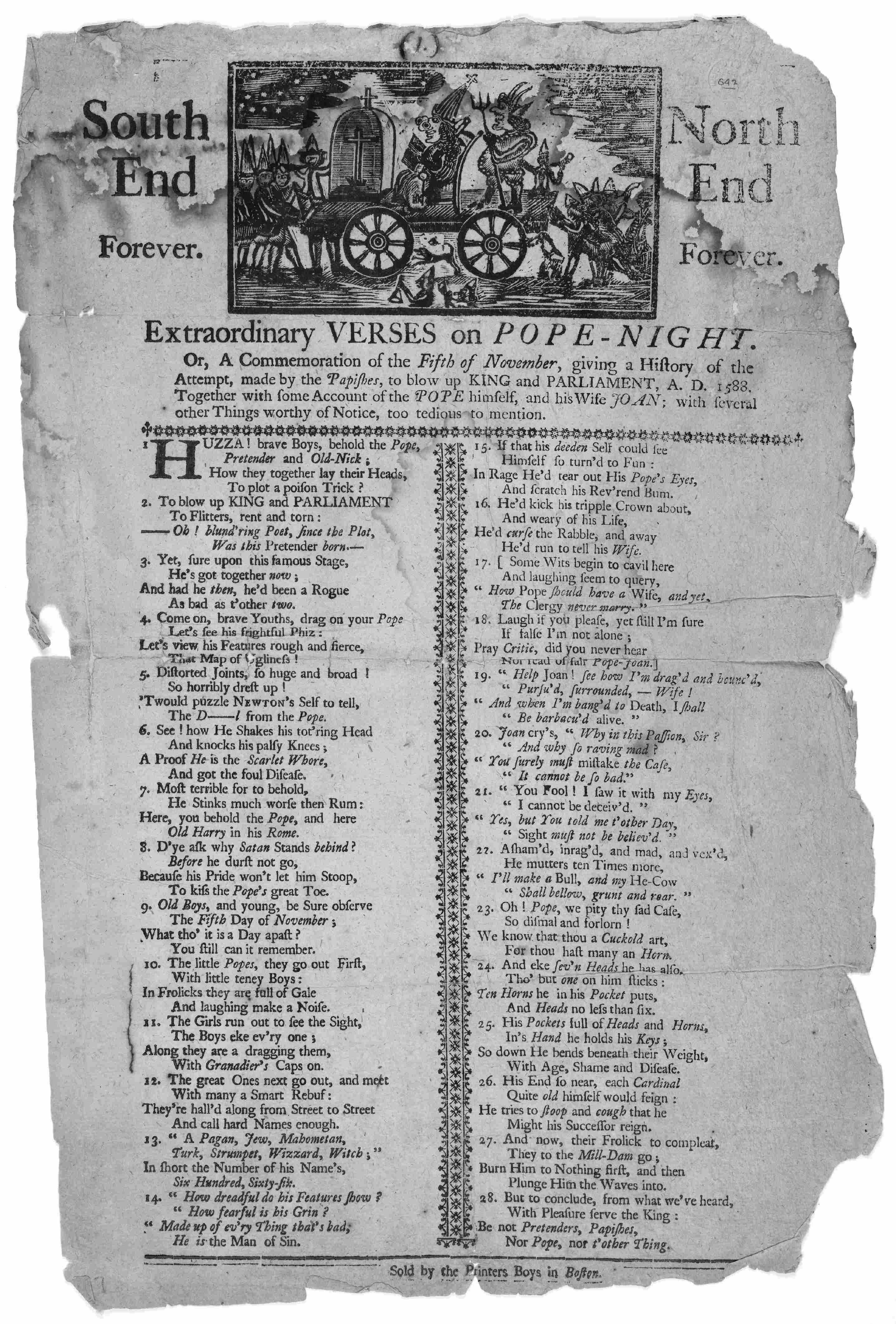 An American Time Capsule: Three Centuries of Broadsides and Other Printed Ephemera South end forever [cut] North end forever. Extraordinary verses on Pope-night. or, A commemoration the fifth of November, giving a history of the attempt, made by the papishes, to blow up king and Parliament, A. D. 1588. Together with some account of the Pope himself, and his wife Joan: with several other things worthy of notice, too tedious to mention. Sold by the printers boys in Boston [1768]